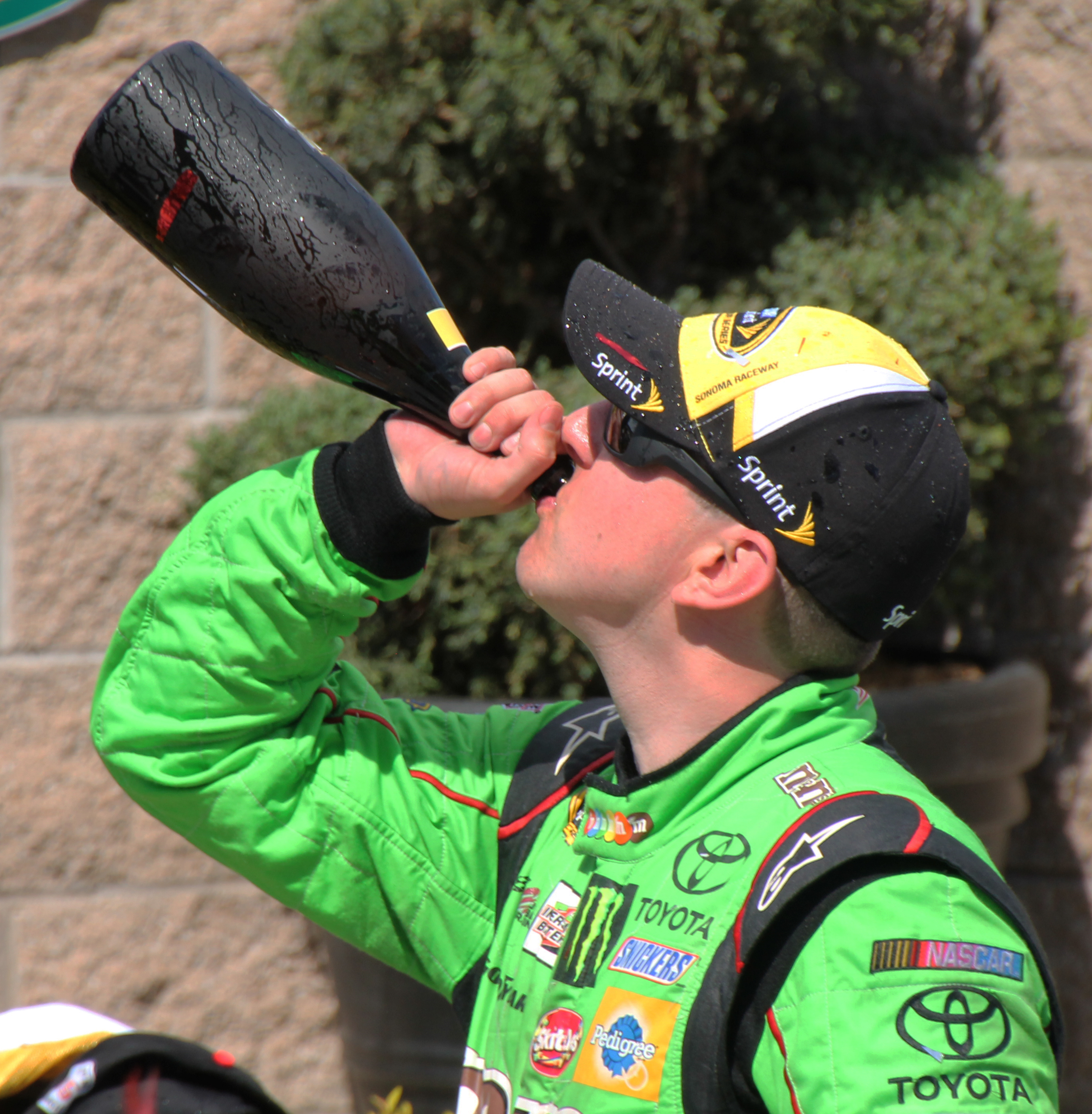 Kyle Busch celebrates winning the 2015 Toyota/Save Mart 350 at Sonoma Raceway, Sonoma, California.